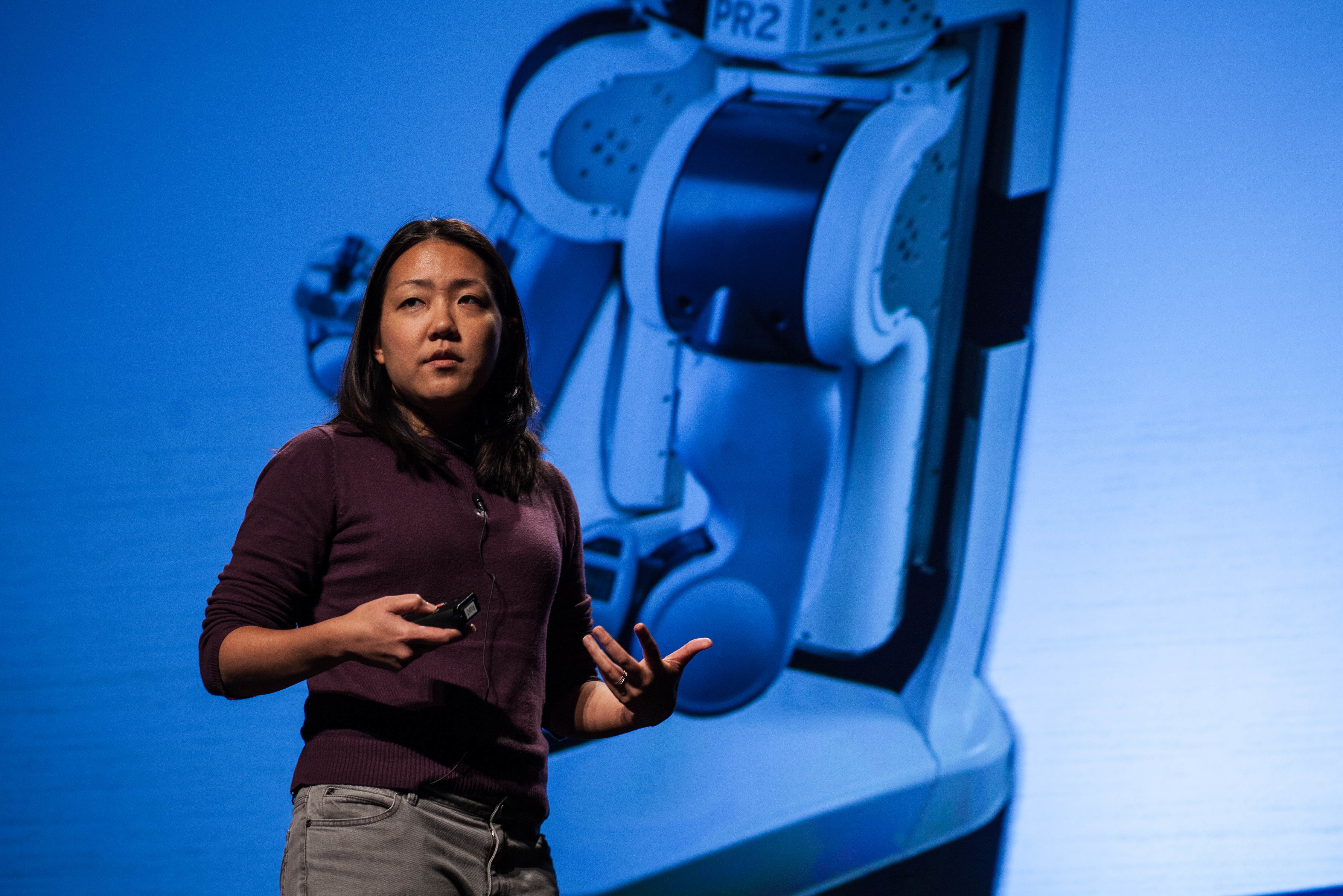 Leila Takayama Photo by Thatcher Cook for PopTech